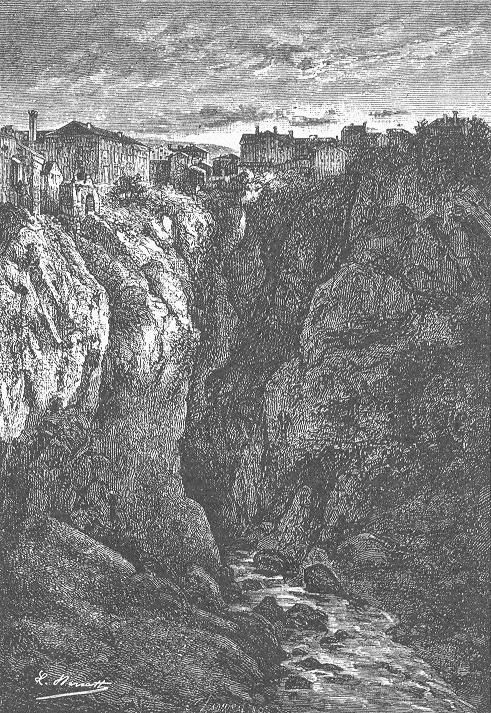 An illustration from Jules Verne's novel "Mathias Sandorf" (1885) drawn by Léon Benett.